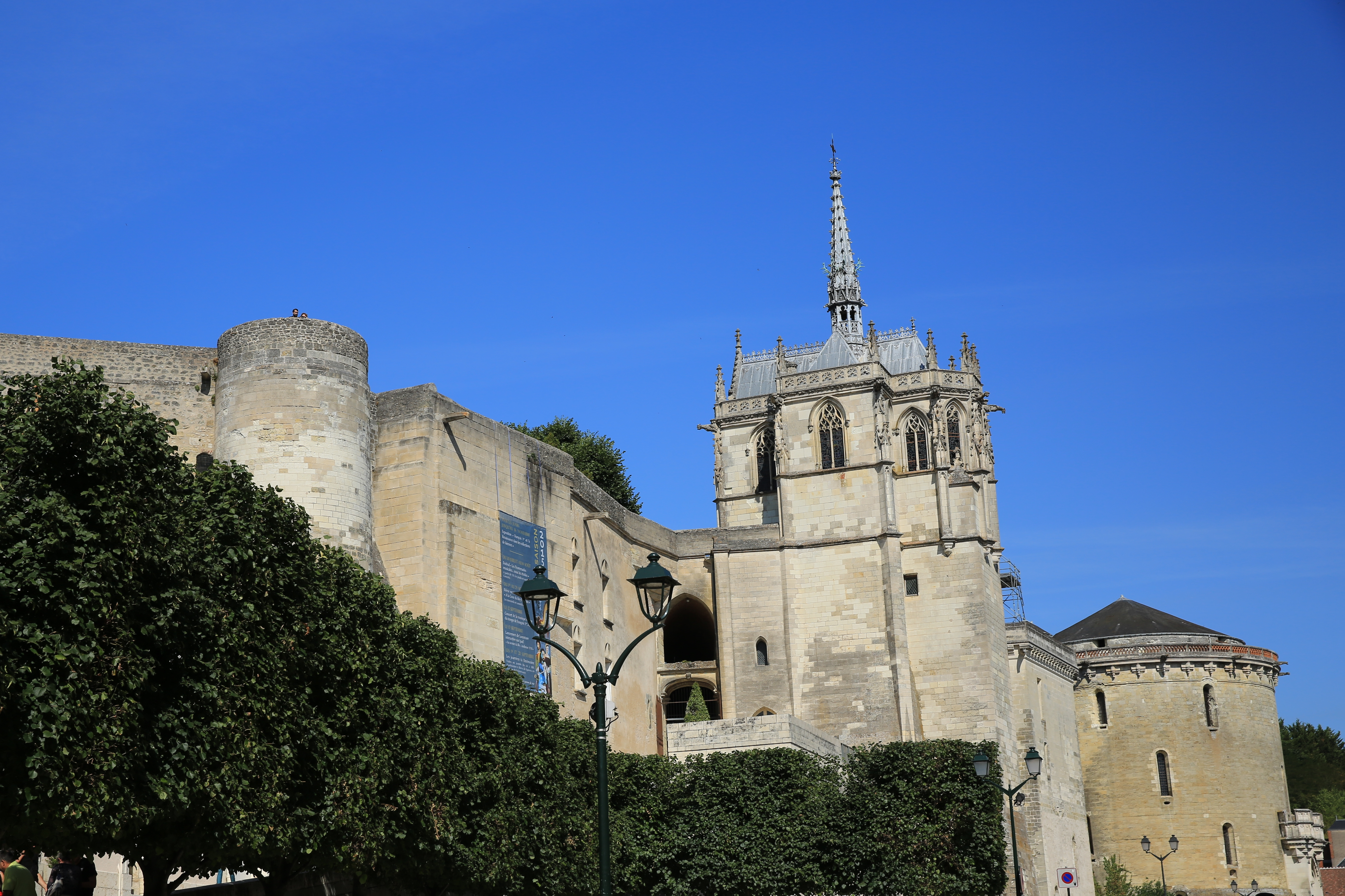 Castle of Amboise, Indre-et-Loire